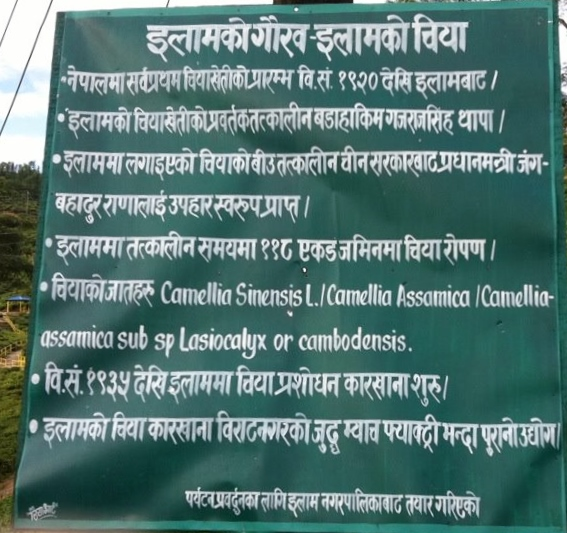 Second sign post in Illam Tea Estate acknowledging the contribution of Gajraj Singh Thapa in starting Nepal's very first tea plantation